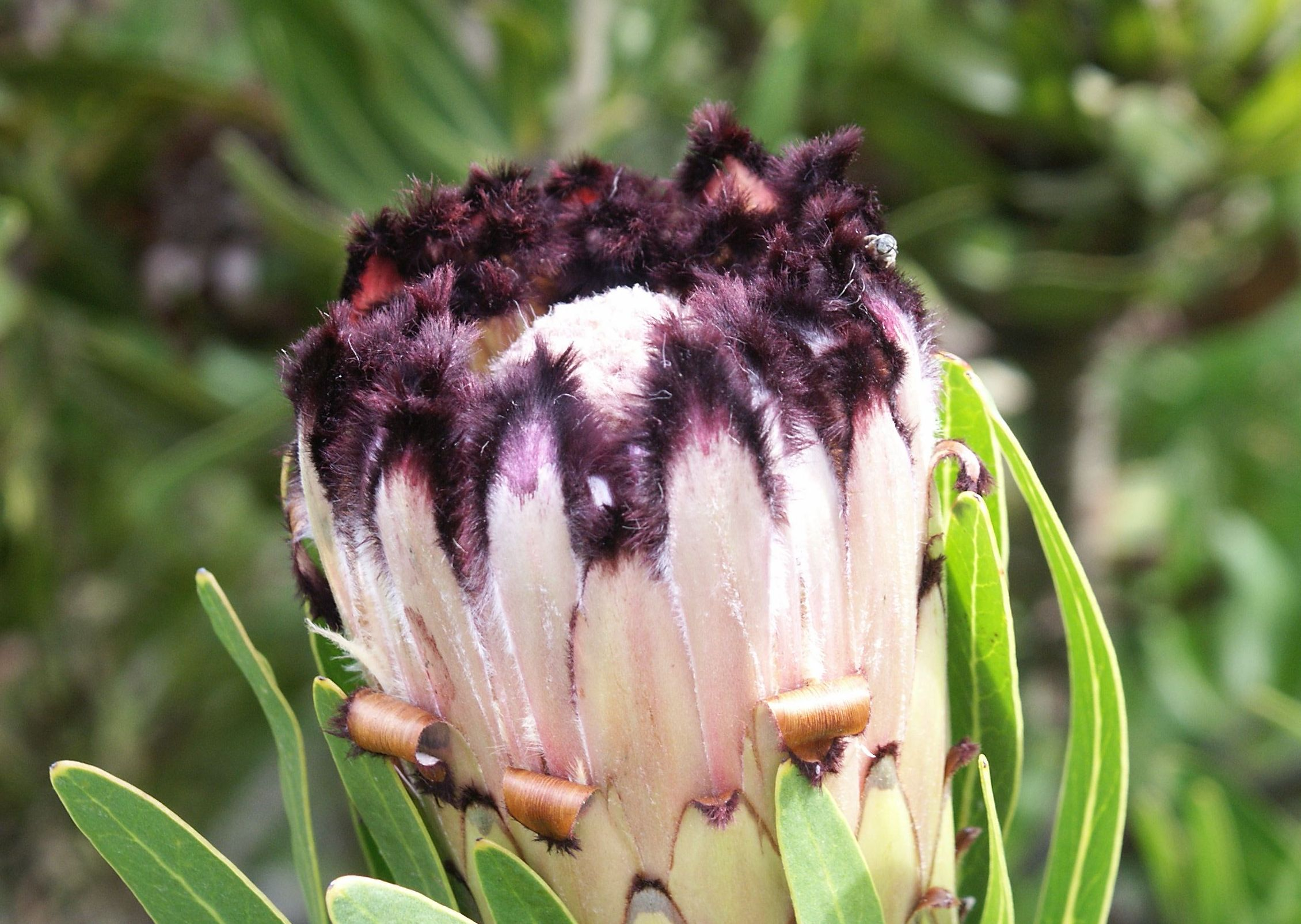 Kirstenbosch Botanical Garden, Cape Town, South Africa. Protea nerifolia.